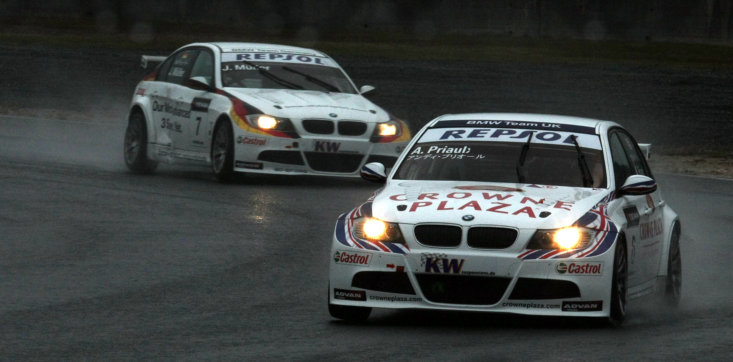 World Touring Car Championship 2009 Race of Japan: Andy Priaulx (BMW Team UK) leads Jörg Müller (BMW Team Germany) at Race 1.